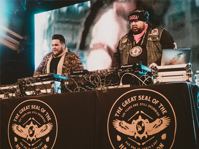 A Tribe Called Red playing in Vancouver's Commodore on March 11, 2018